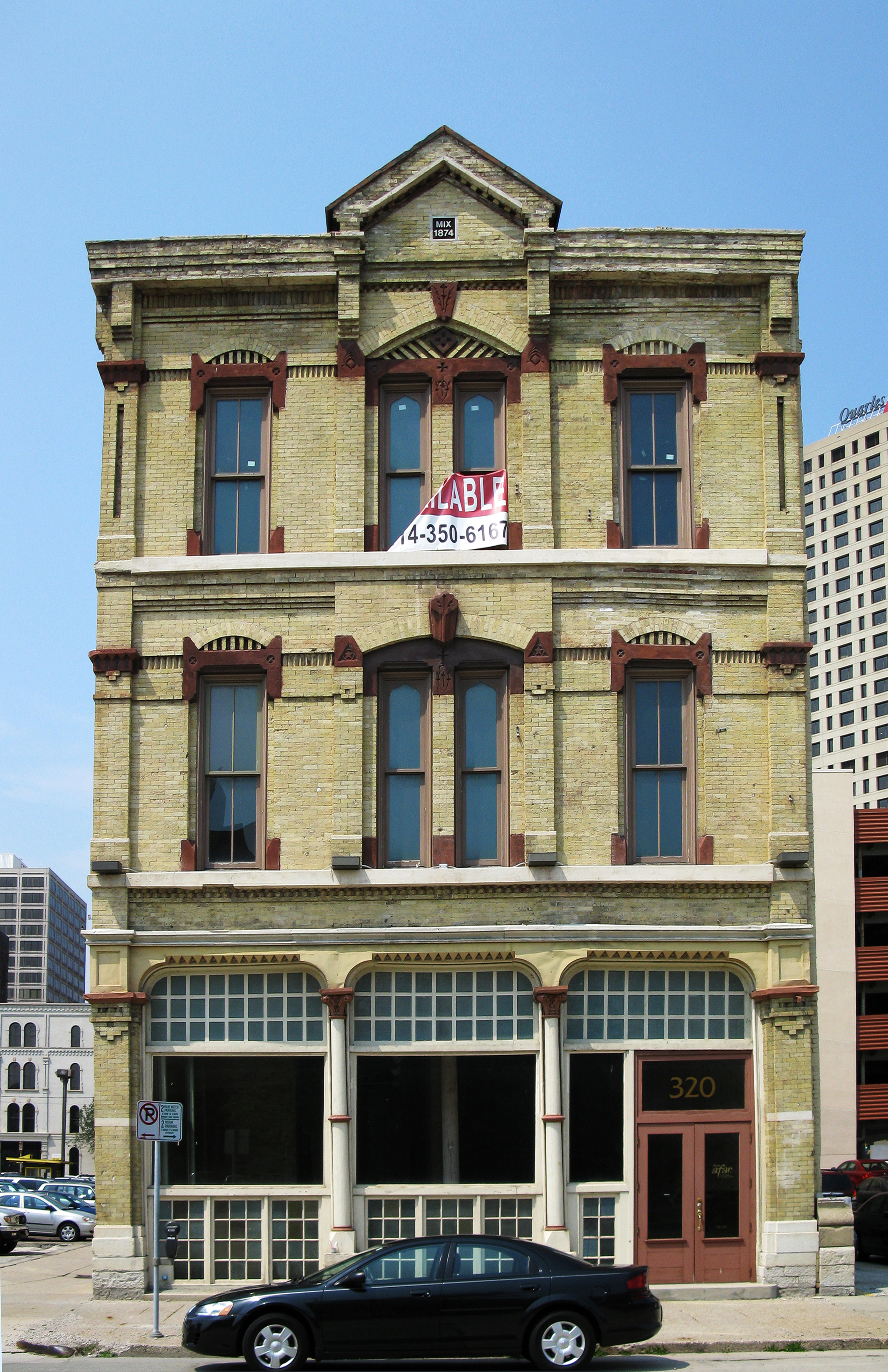 Wisconsin Leather Company building (1874) at 320 E. Clybourn Street in Milwaukee, Wisconsin, designed by E. Townsend Mix, was added to the National Register of Historic Places in 2005.